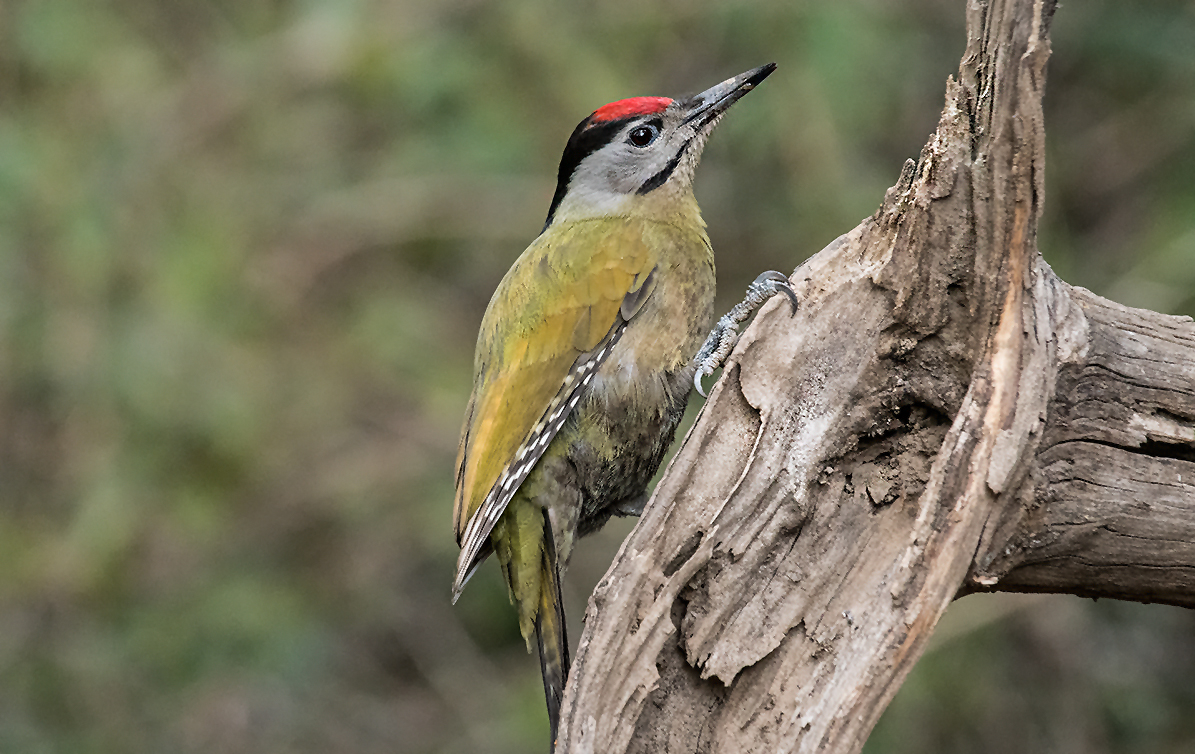 Greay-heade Woodpecker Male